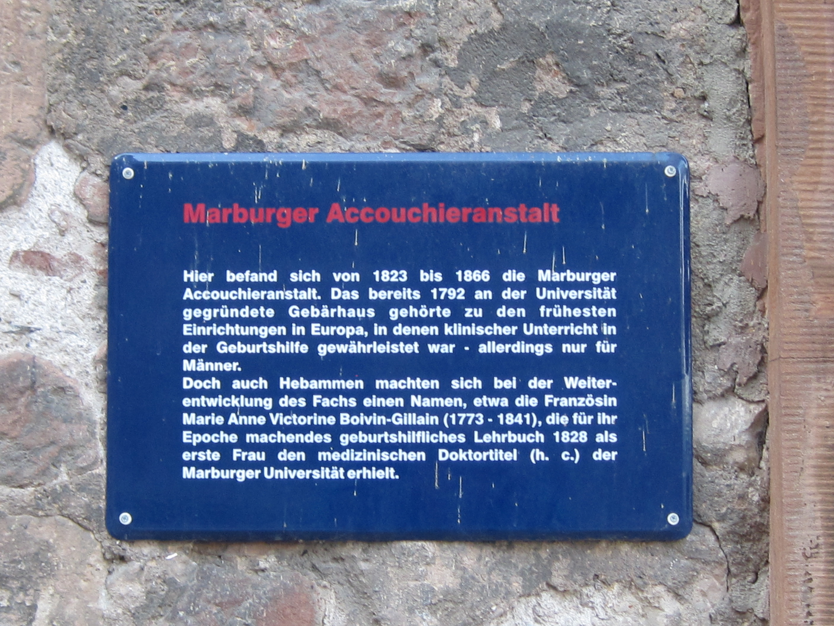 Plaque for the historical Accouchieranstalt of the Philipps-Universität in Marburg founded in 1792 and located from 1823–1866 in this building which now belongs to the geography faculty of the university.